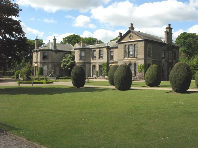 Lotherton Hall and gardens.